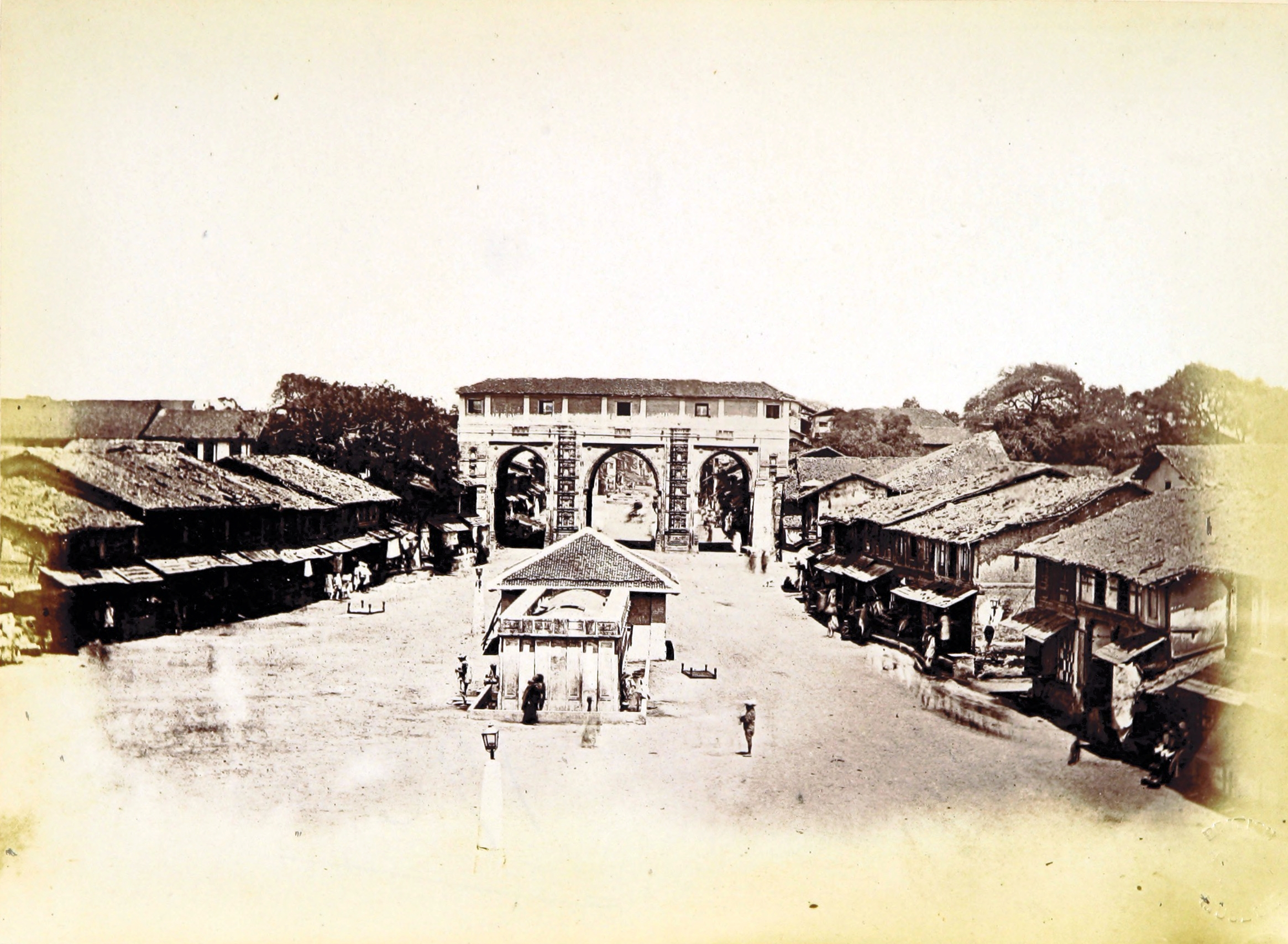 Image taken from: Title: "Architecture at Ahmedabad, the Capital of Goozerat, photographed by Colonel Biggs, ... With an historical and descriptive sketch, by T. C. H., ... and architectural notes by J. Fergusson, etc" Author: HOPE, Theodore Cracraft - Sir, K.C.S.I Contributor: BIGGS, Thomas. Contributor: FERGUSSON, James - Architect Shelfmark: "British Library HMNTS 10057.f.17.", "British Library OC V 6665" Page: 147 Place of Publishing: London Date of Publishing: 1866 Issuance: monographic Identifier: 001730119 Explore: Find this item in the British Library catalogue, 'Explore'. Download the PDF for this book (volume: 0) Image found on book scan 147 (NB not necessarily a page number) Download the OCR-derived text for this volume: (plain text) or (json) Click here to see all the illustrations in this book and click here to browse other illustrations published in books in the same year. Order a higher quality version from here.